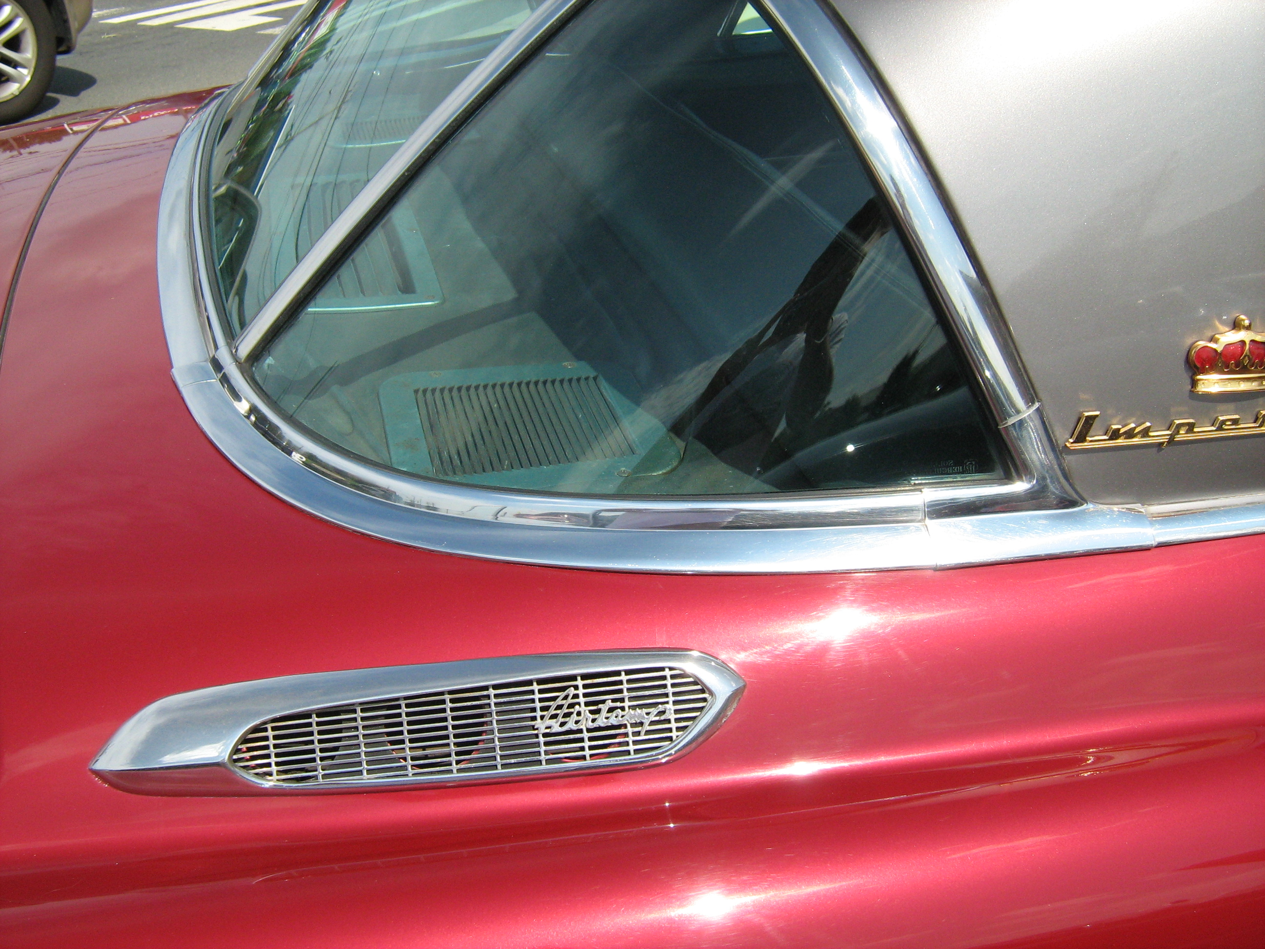 1953 Chrysler Imperial - detail of the air vents for the factory air conditioning system mounted in the trunk of this car.